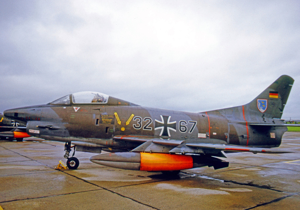 Fiat G-91R/3 3267 of LeKG 43 at RAF Chivenor in 1971